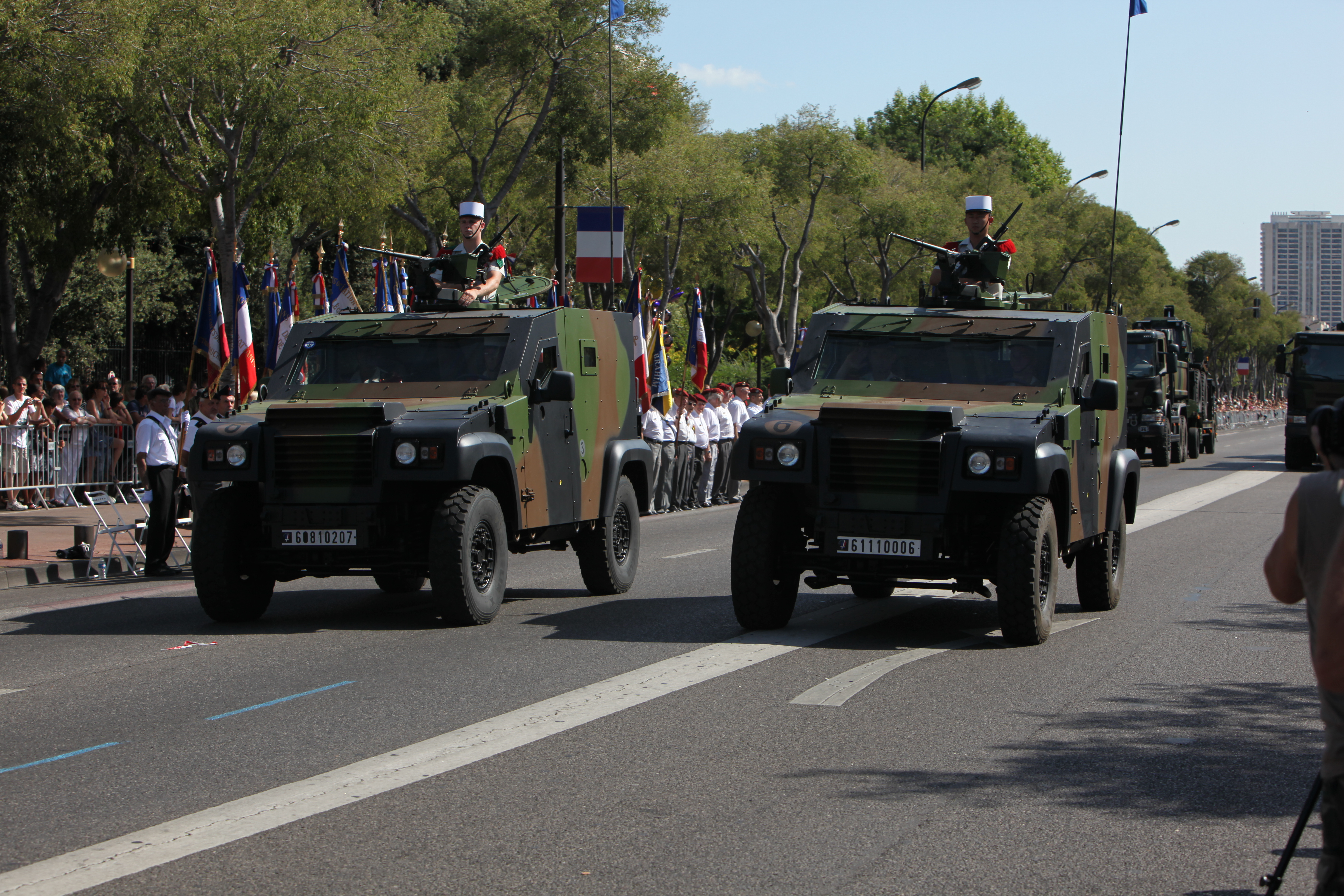 Petit Véhicule Protégé of the 2nd Foreign Engineer Regiment during the military parade of 14 July 2012 in Marseille. The making of this document was supported by Wikimédia France. (Submit your project!)